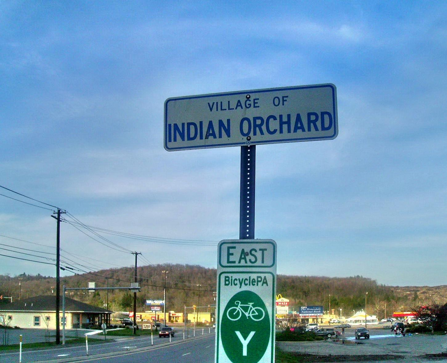 Village of Indian Orchard sign on U.S. Route 6 Eastbound upon entering.